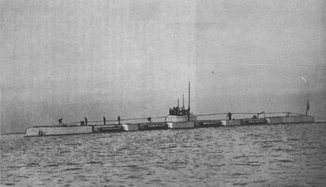 Russian submarine "Барс" (Bars, Eng: "Leopard"). Baltic fleet. 1914 year.